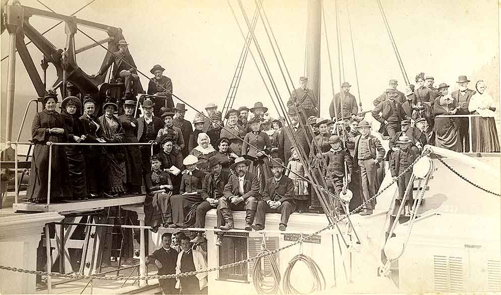 Passengers on the upper deck of the sidewheel steamer Olympian, possibly en route to Alaska, or more likely an excursion party. Circa 1890.